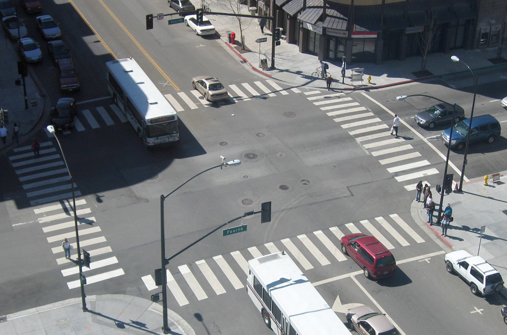 San Jose, CA intersection overview from MLK Library in the early afternoon. North is right. Taken by Jeremy Kemp, 3/10/05